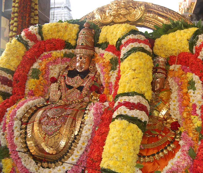 Annamalaiyar, Indian hindu god